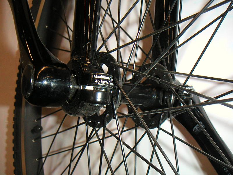 Unicycle wheel hub, photo by Andrew Dressel